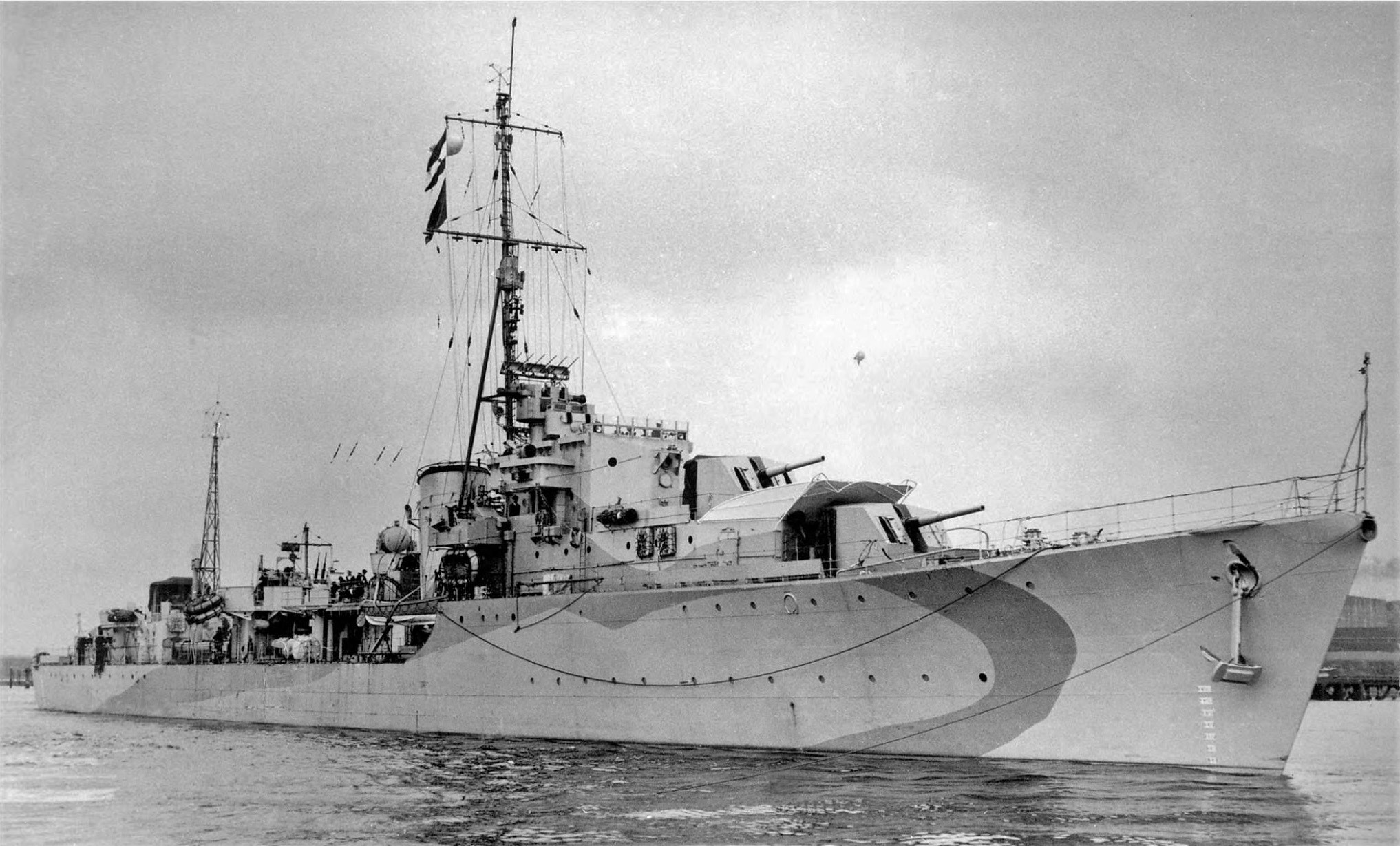 British destroyer HMS SAUMAREZ underway, near a harbour.